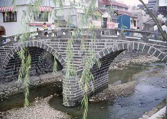 Megane Bridge, the "Eyeglasses bridge" (symbol of Nagasaki, Kyūshū, Japan). I took this photograph and contribute it to the public domain.